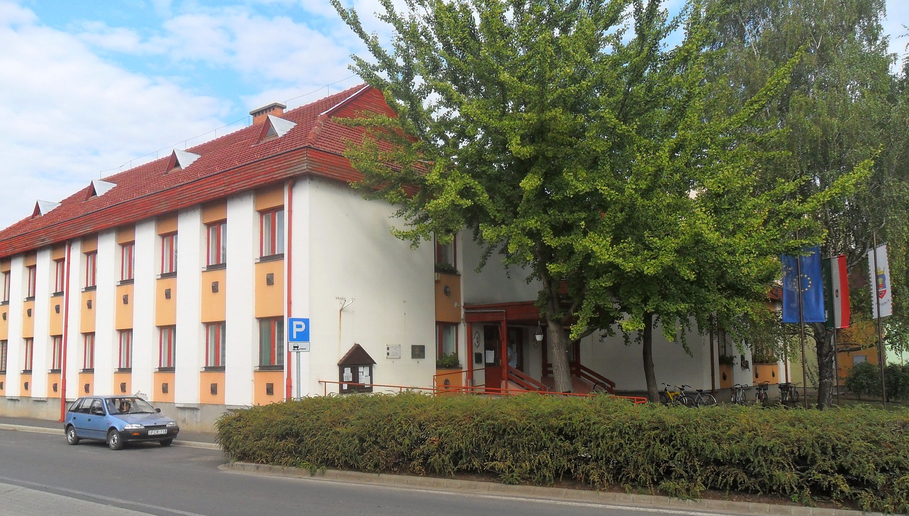 Village Council Hall of Nagyszenas